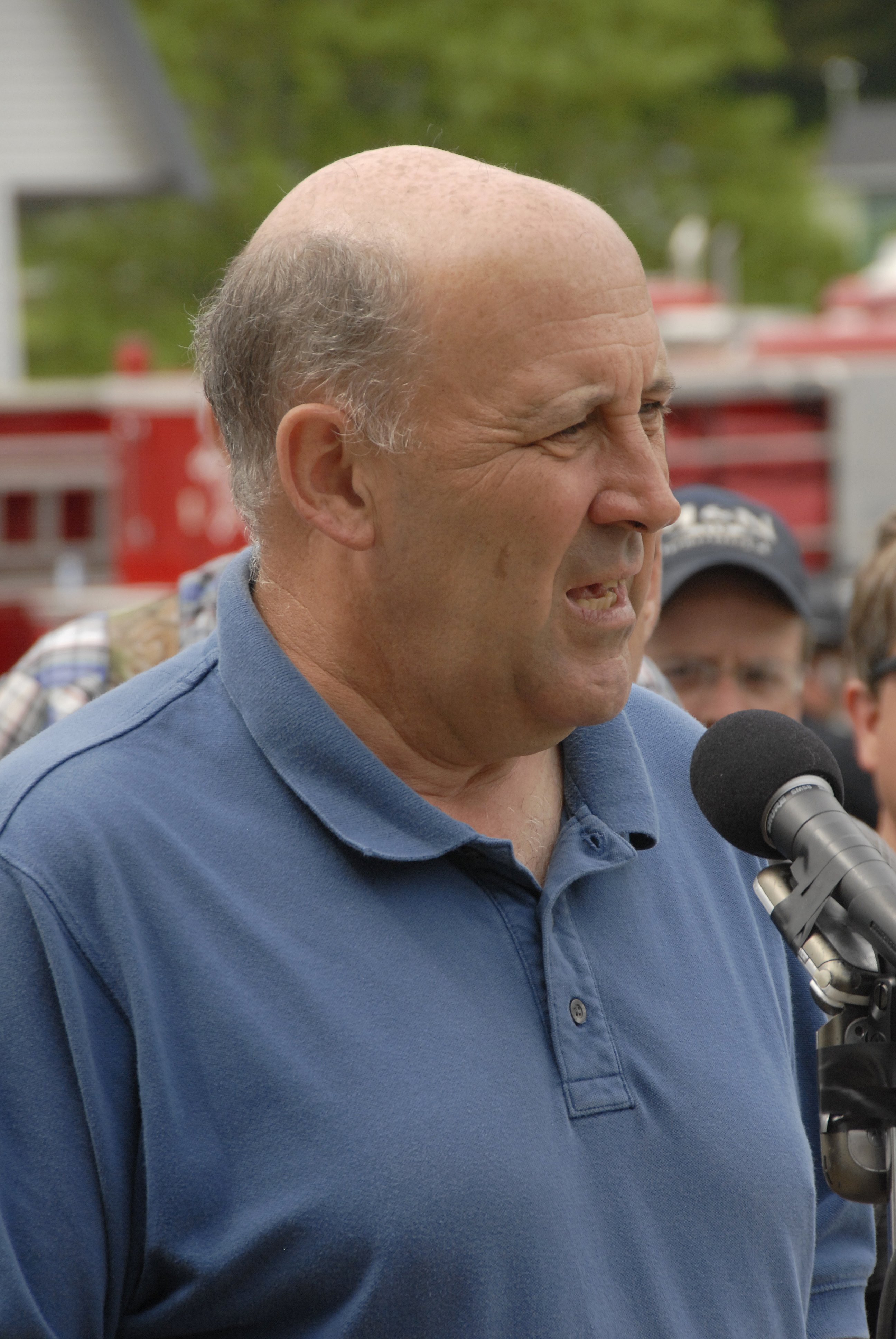 080611-F-6967G-052 Wisconsin Gov. Jim Doyle conducts a press conference in Soldiers Grove, Wis., June 11, 2008, during an aerial flood damage assessment of southern Wisconsin. Doyle declared a state of emergency due to flooding throughout the state, allowing U.S. Air Force Brig. Gen. Don Dunbar, the adjutant general of Wisconsin, to activate National Guard troops to assist in relief efforts. (U.S. Air Force photo by Master Sgt. Paul Gorman/Released) Photographer's Name: MSgt Paul Gorman Date Shot: 6/11/2008 Date Posted: 6/19/2008 Location: Soldiers Grove